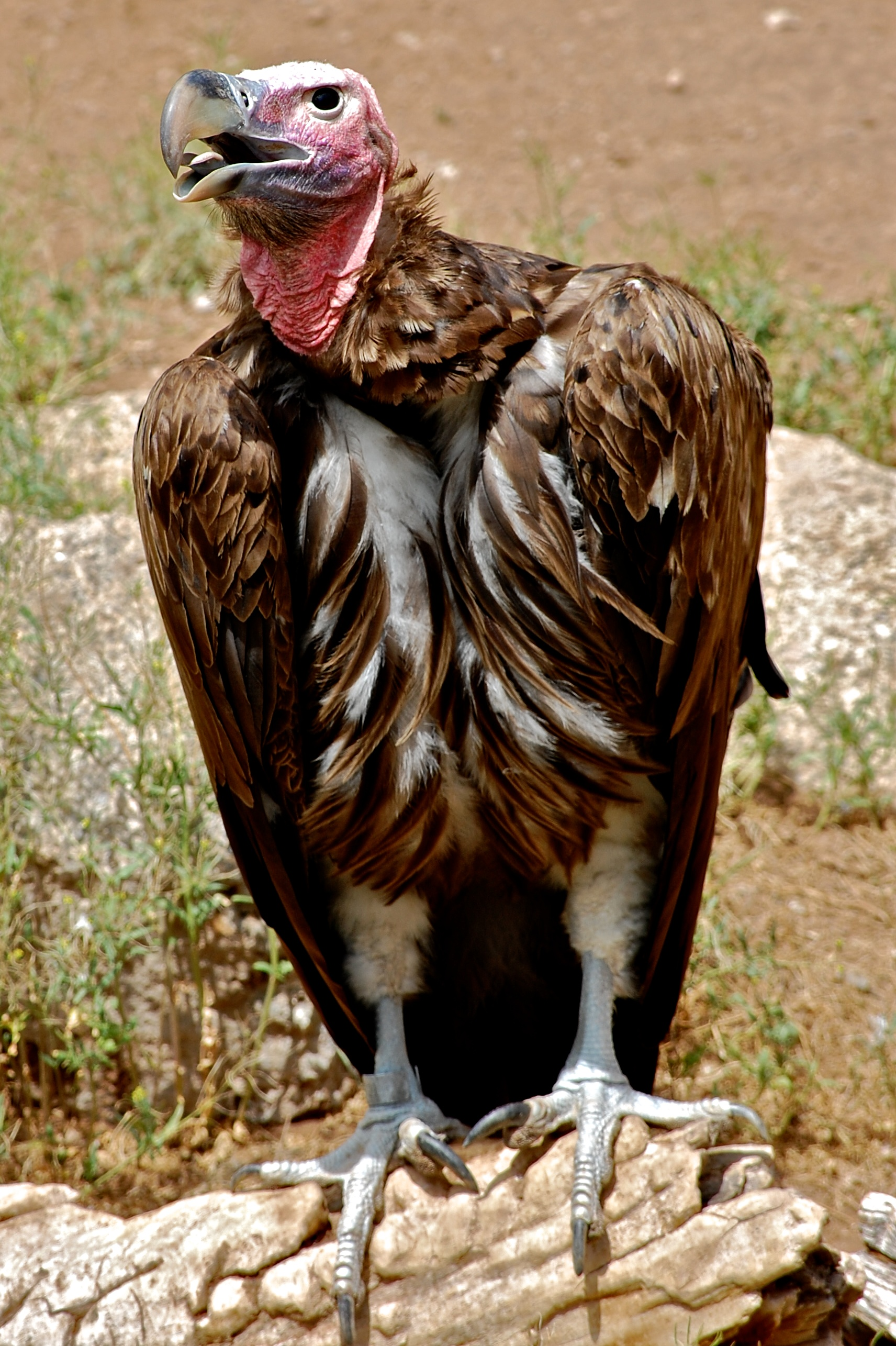 An adult Lappet-faced Vulture at Rio Grande Zoo, New Mexico, USA.